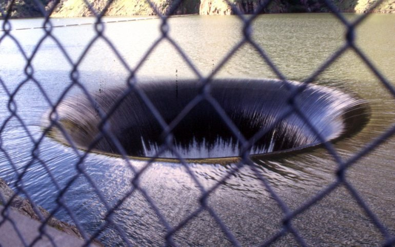 Lake Berryessa overflowing into Glory Hole spillway at Monticello dam, Napa county, California, USANote: There are plenty of better but possibly non-free images of this (e.g. this, or for a perspective, this); please upload a new version if you find a free one that shows the water flowing. That doesn't happen very often though; last time was in 2006.